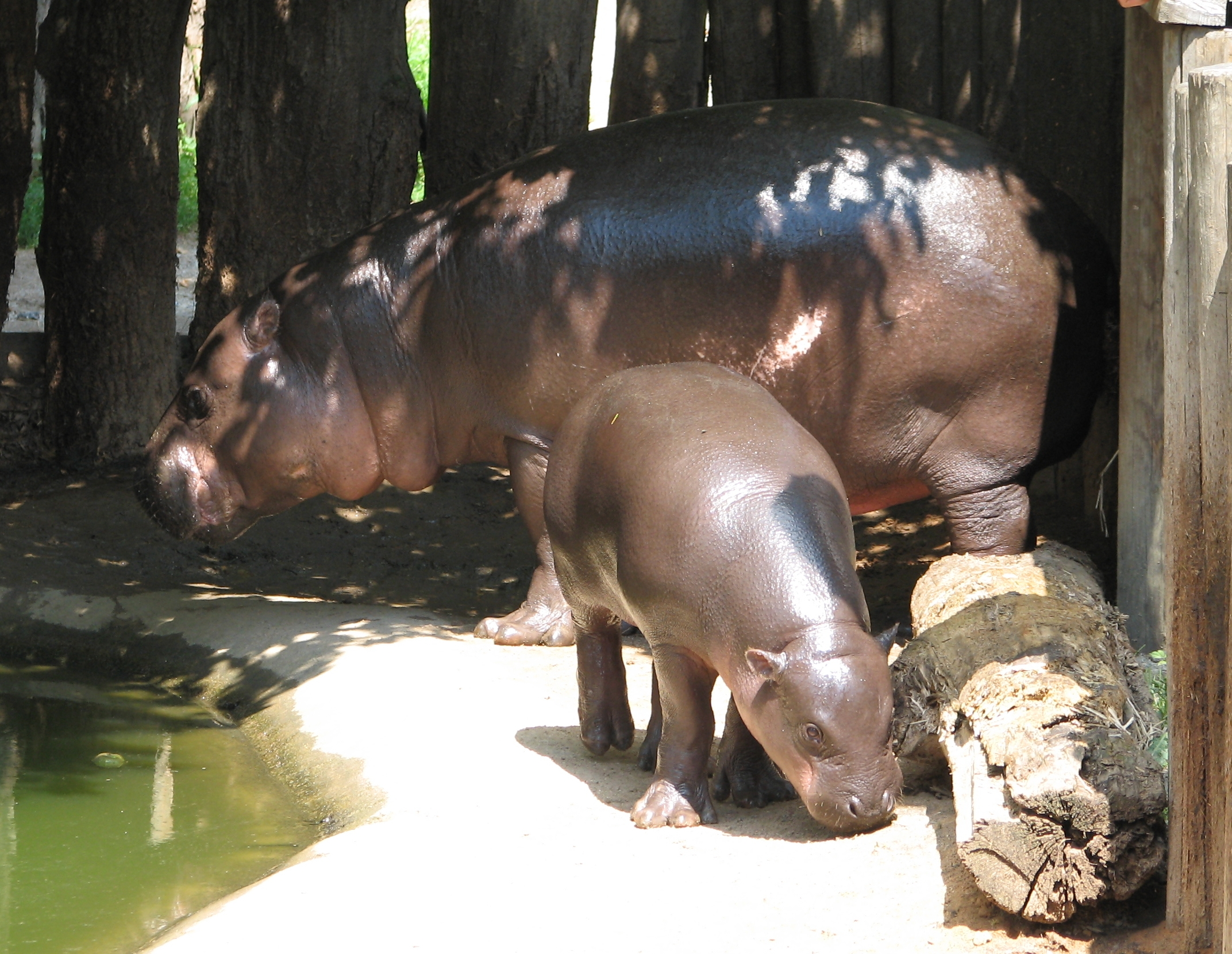 Pygmy Hippopotamus the young in ZOO Jihlava, Czech Republic